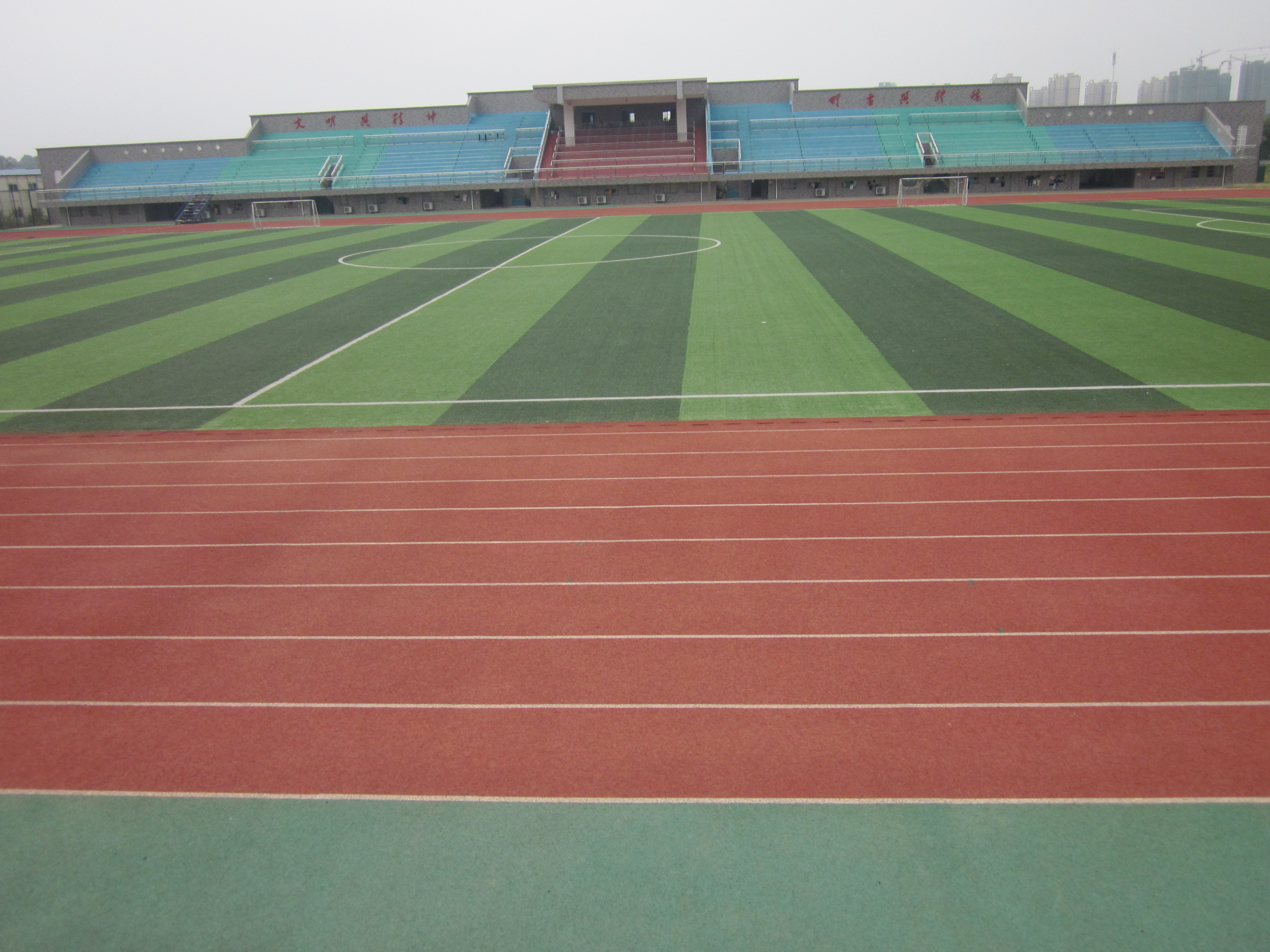 Hunan First Normal University (simplified